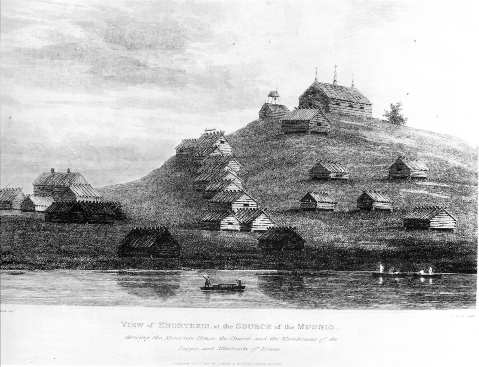 Enontekiös first church and market place in Markkina by the Muonio River, pictured by Letitia Byrne 1819. Below the church are cottages owned and used by the parishers as well as by tradesmen från Torneå.